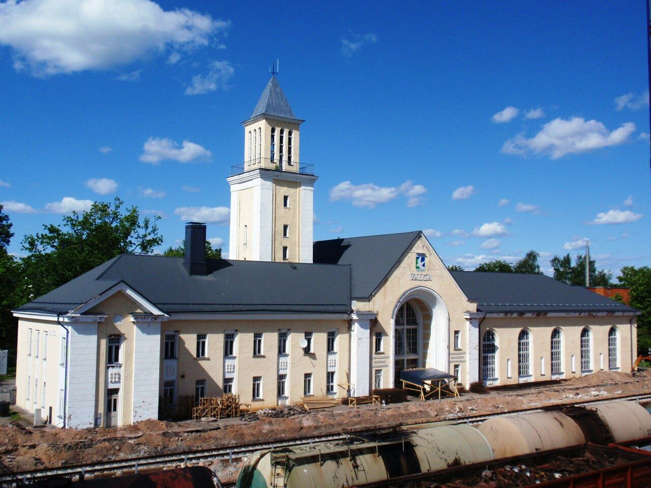 Valga railway station